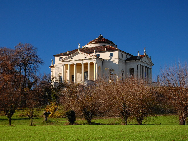 Picture of Villa La Rotonda in Vicenza